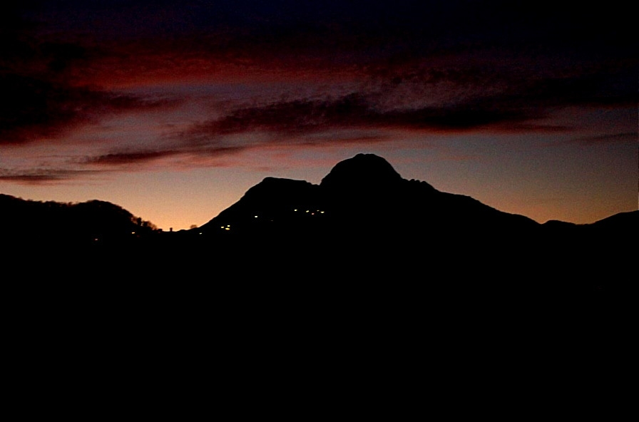 The country of Trassilico in Garfagnana below the peaks of the Apuan Alps